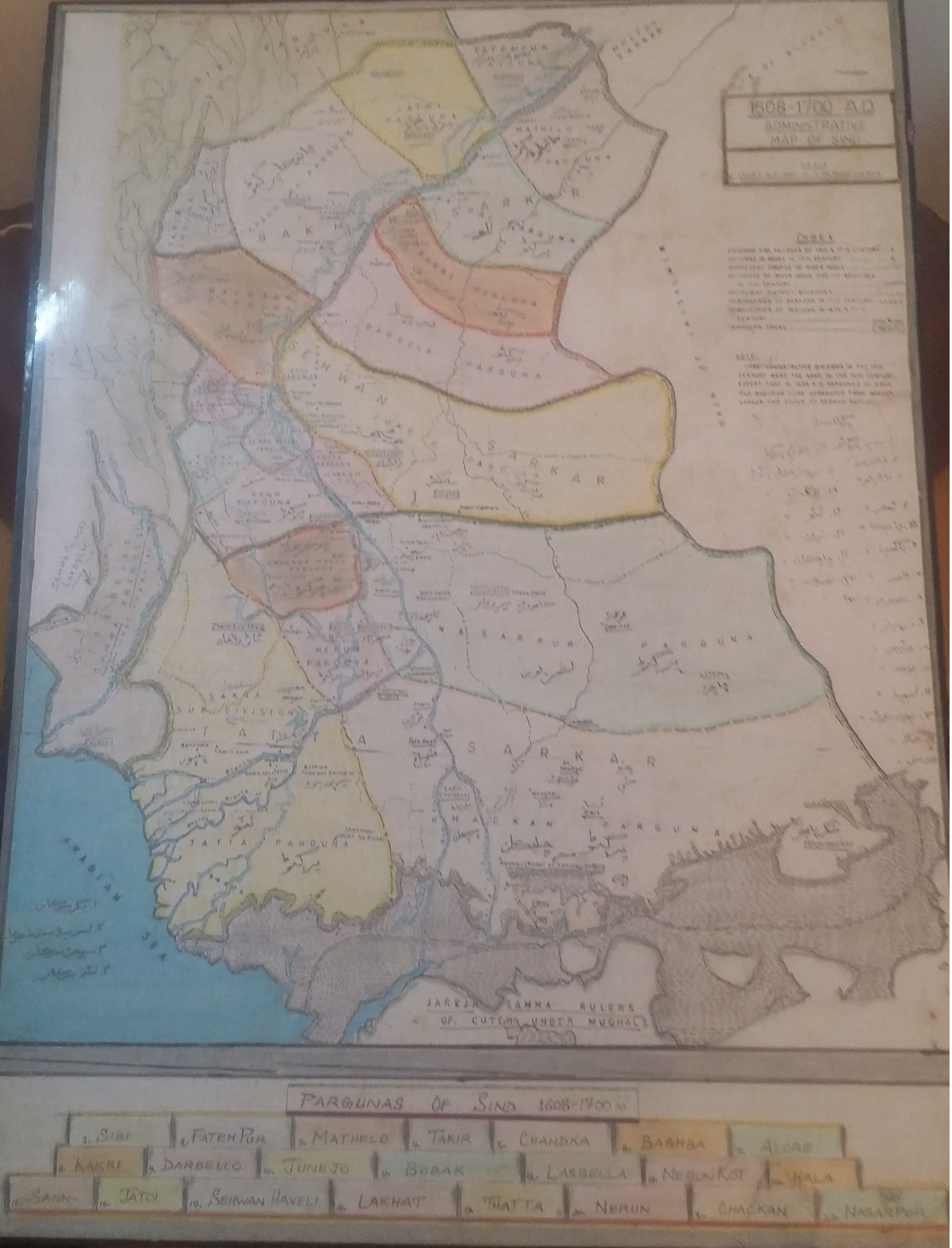 Administrative Map of Sindh 1608~1700 A.D سنڌي: A.D 1700 سنڌ جي جي انتظامي نقشو ~ 1608 کان